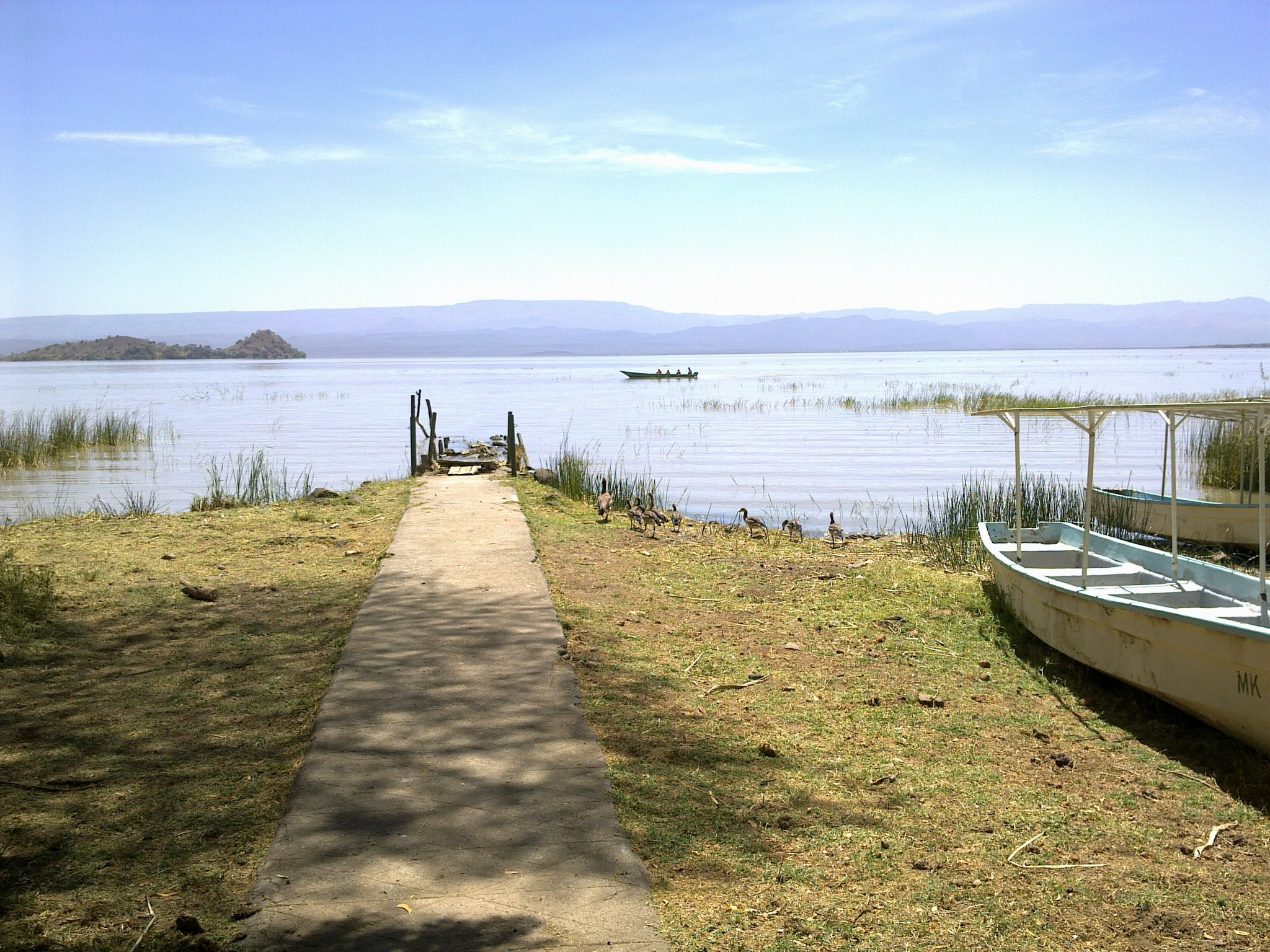 Lake Baringo Kenya This is an image of music and dance from Kenya